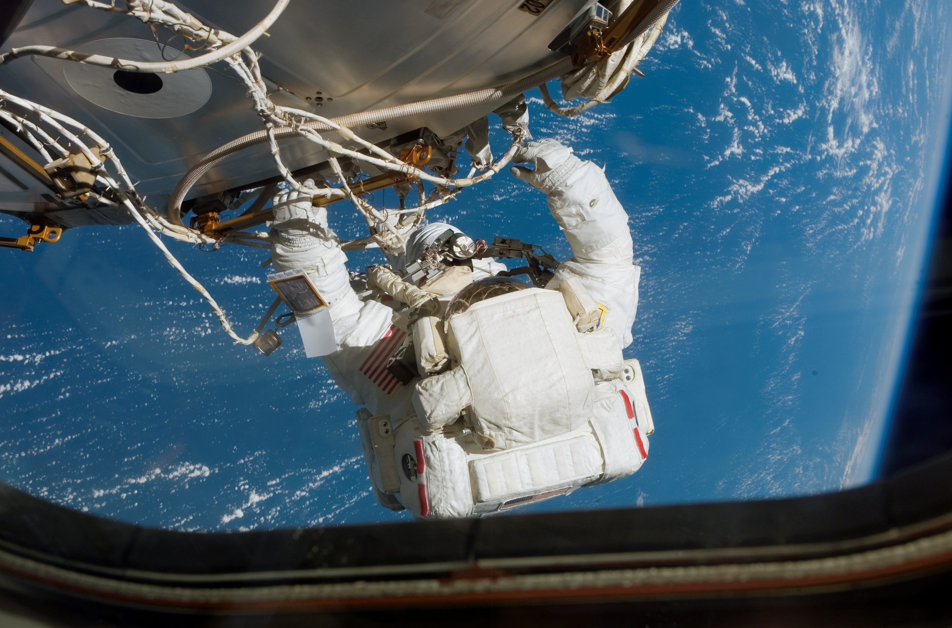 Astronaut Patrick Forrester, STS-117 mission specialist, participates in the mission's fourth and final extravehicular activity